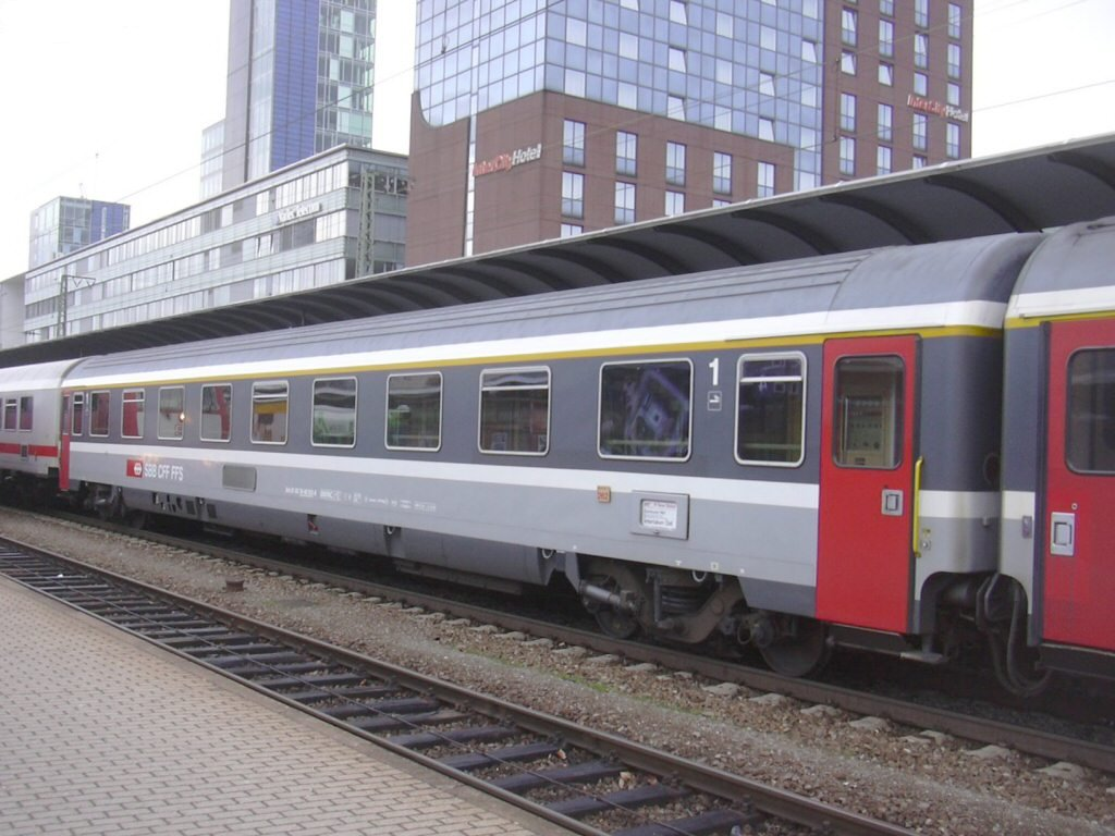 1st class SBB-Eurofima European Standard Coach, Freiburg im Breisgau, 2003-12-28.